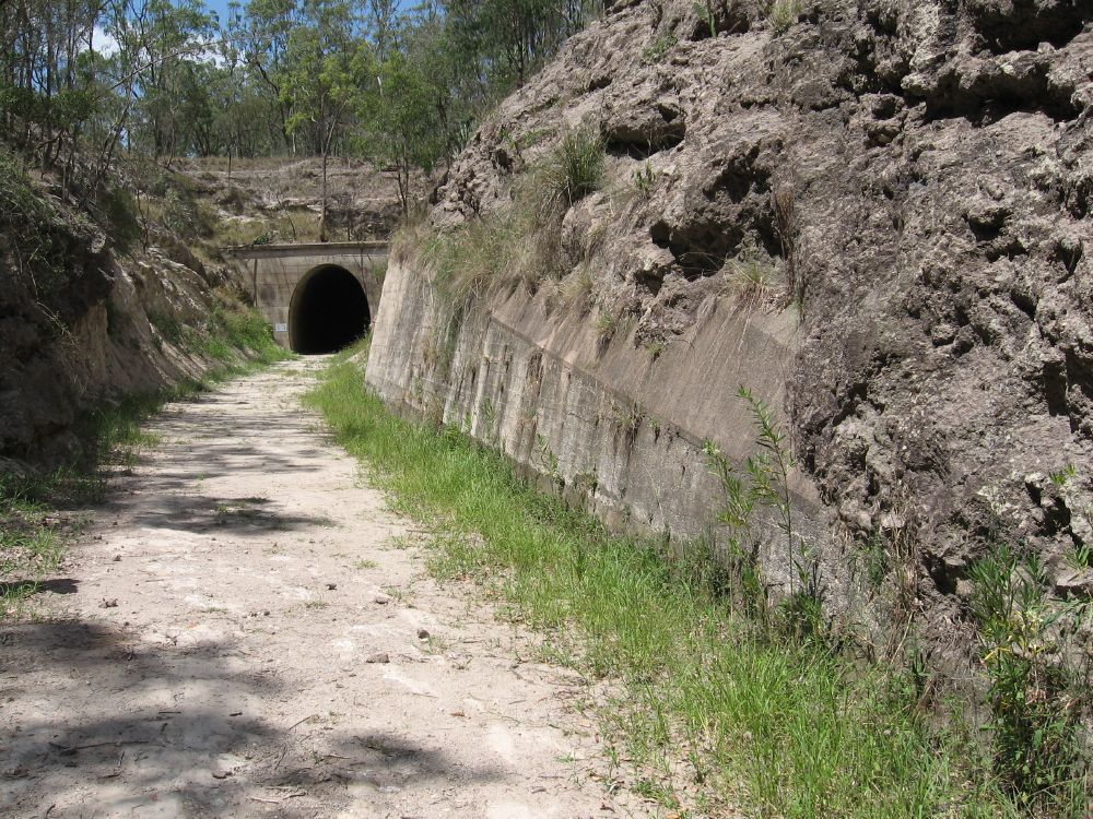 A picture of the Muntapa Tunnel